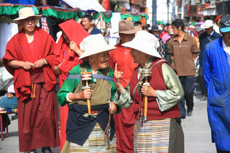 Women in Lhasa